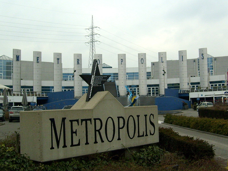 Metropolis Antwerp, Belgium (Movie theater)